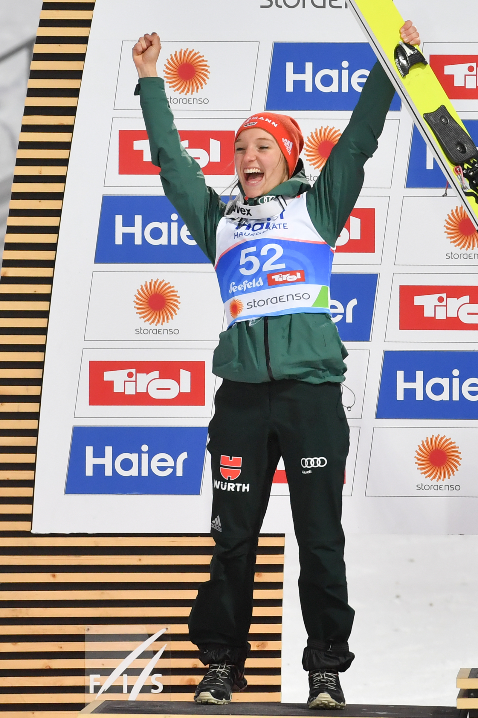 Seefeld, February 27, 2019: FIS Nordic World Ski Championships, Ski Jumping Ladies HS 109.